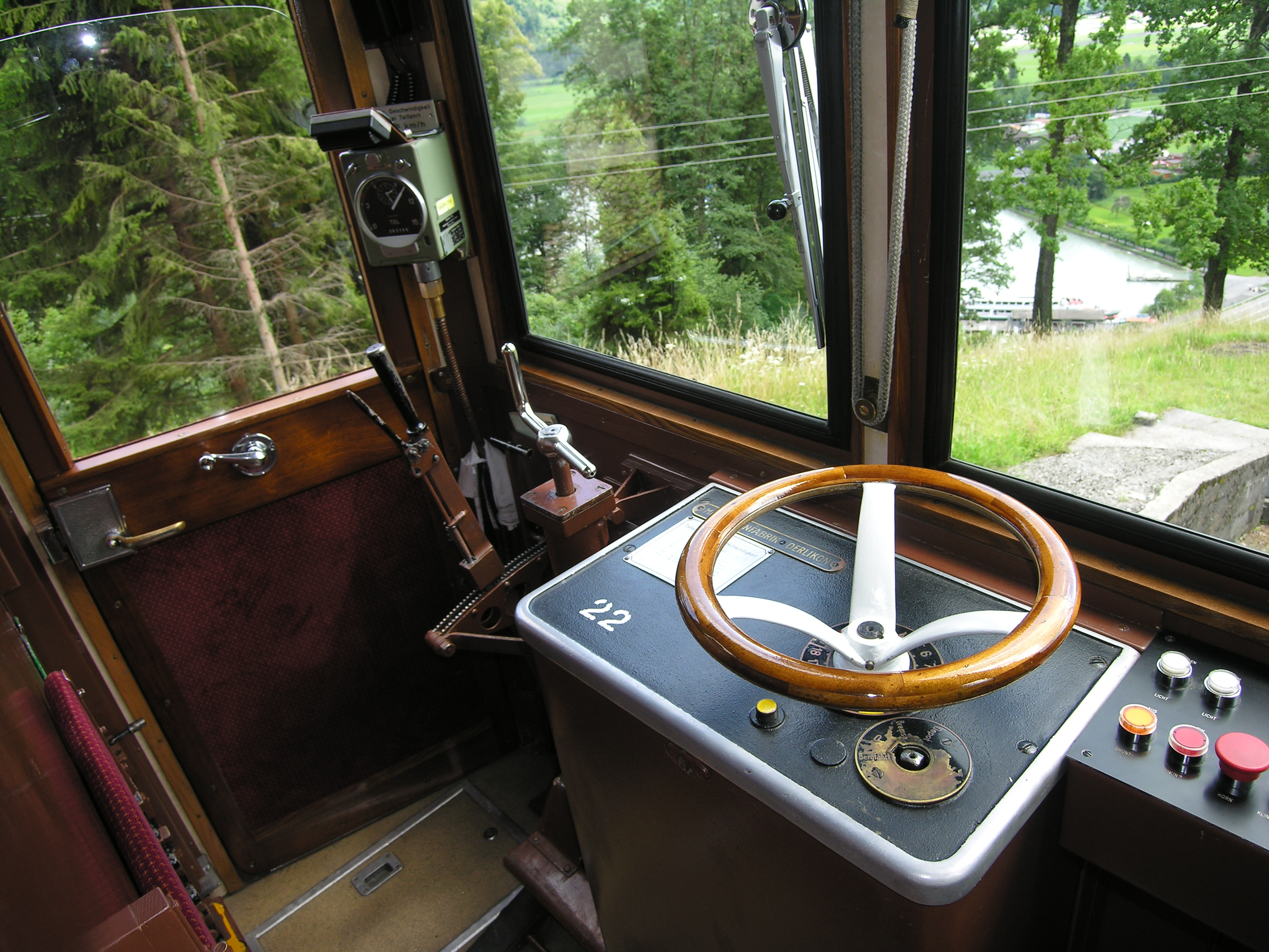 Driver place in Pilatus Railway